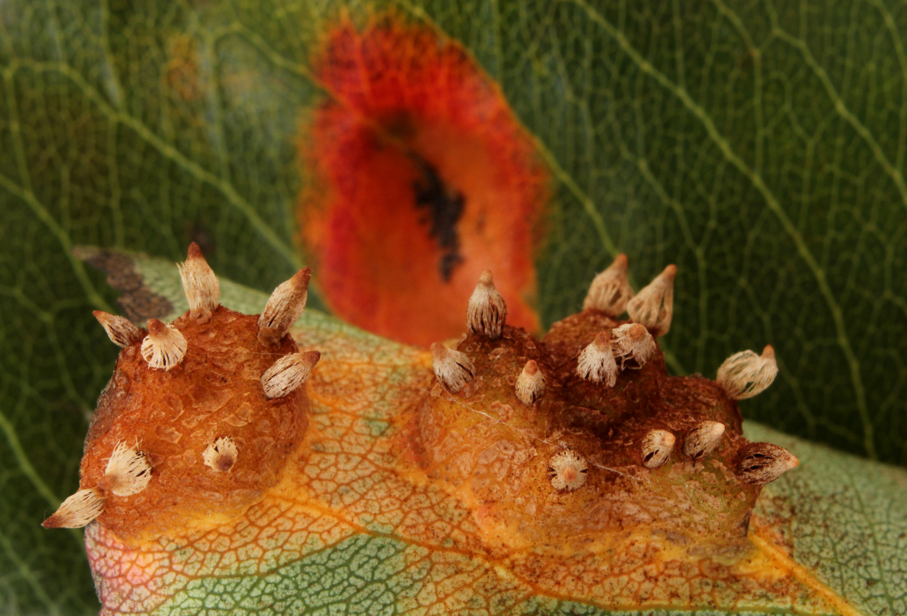 Pear Rust, European Pear Rust or Pear Trellis Rust, Gymnosporangium fuscum syn. Gymnosporangium sabinae, Family: Pucciniaceae, Location: Germany, Erbach, Ringingen